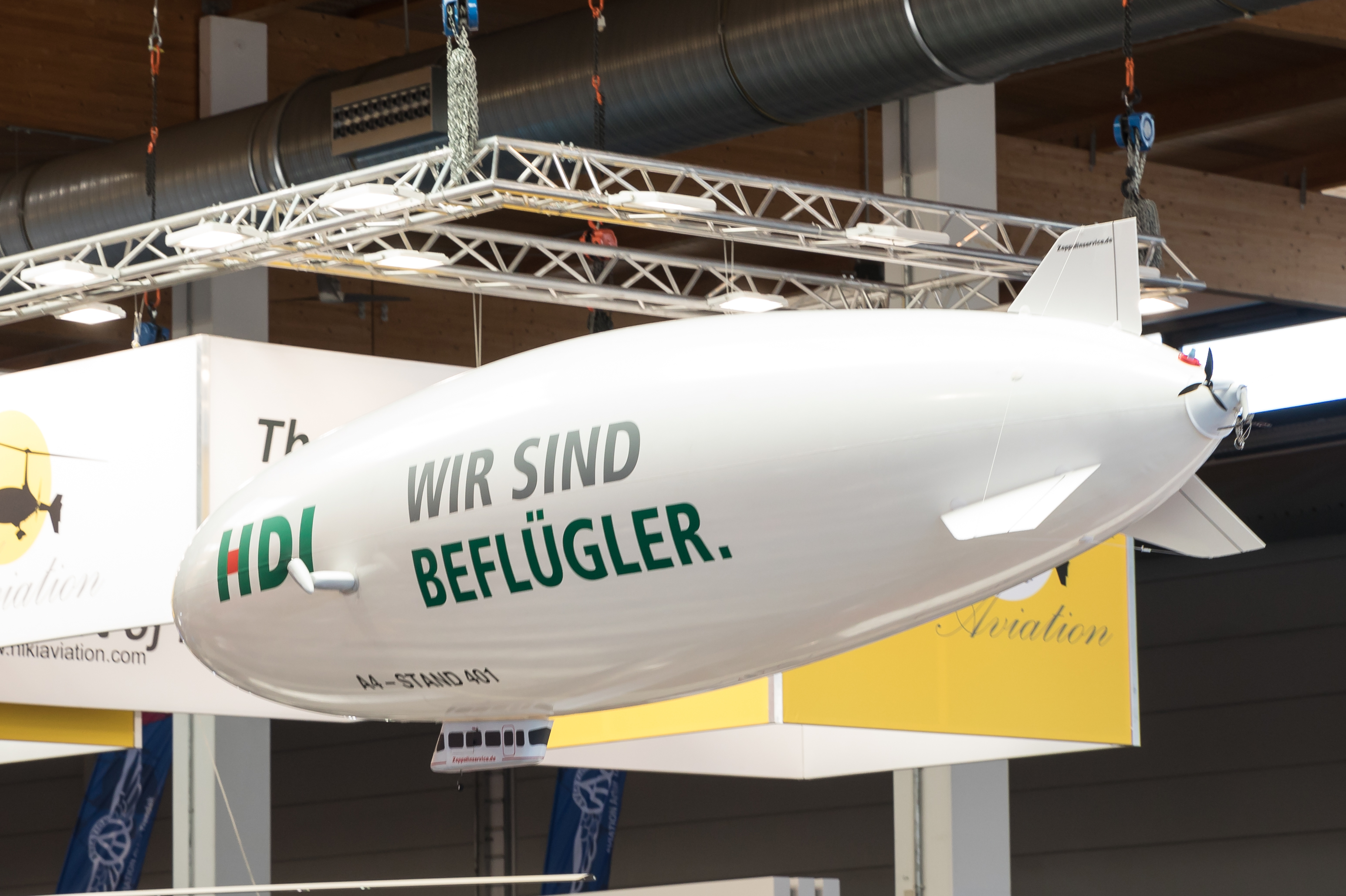 Miniature blimp with advertisement for HDI insurance at AERO Friedrichshafen 2018